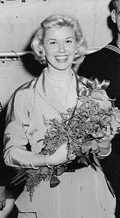 Doris Day an Bord der USS Juneau Lizenz: Beschreibung: Waiting on the dock to greet the anti-aircraft cruiser U.S.S. Juneau on its recent return to Long Beach, Calif., from the Far East was the lovely Warner Brothers' star, Doris Day. ... This photo is not dated, but was published in "All Hands" magazine's January 1953 issue. USS Juneau (CLAA-119) had two Korean War tours, returning to Long Beach on 1 May 1951 from the first and on 5 November 1952 from the second.